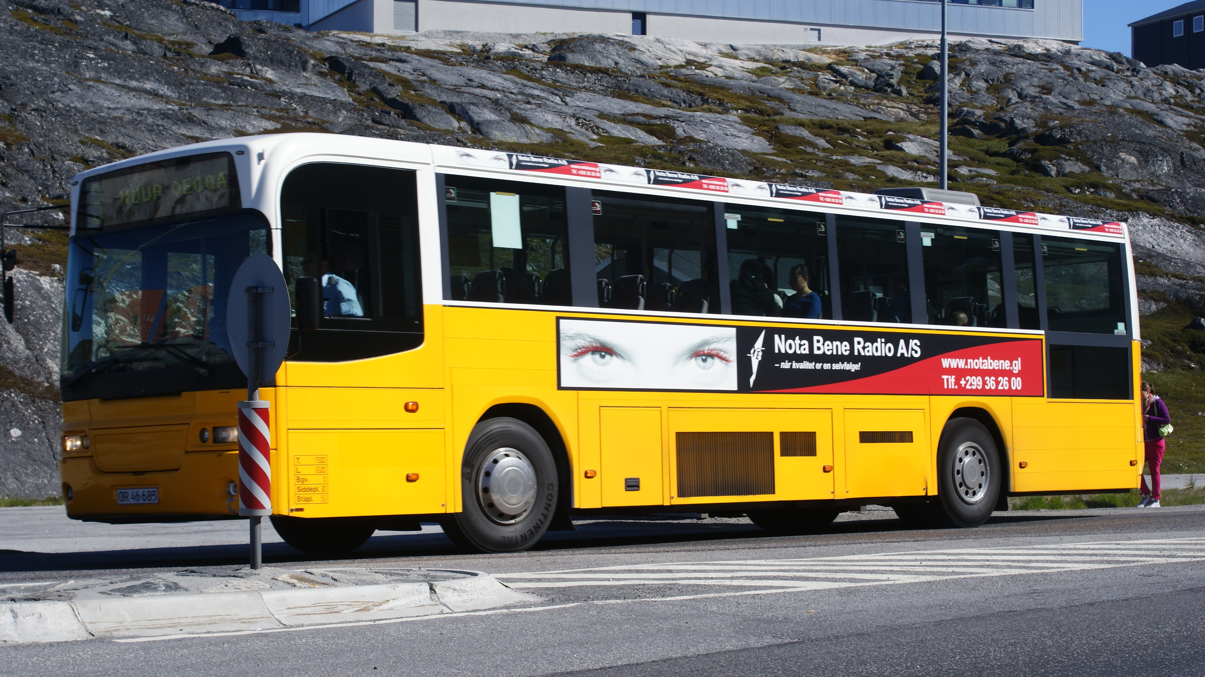 A yellow bus of Nuup Bussii running the bus network in Nuuk, the capital of Greenland. Photographed in the Nuussuaq district of Nuuk.